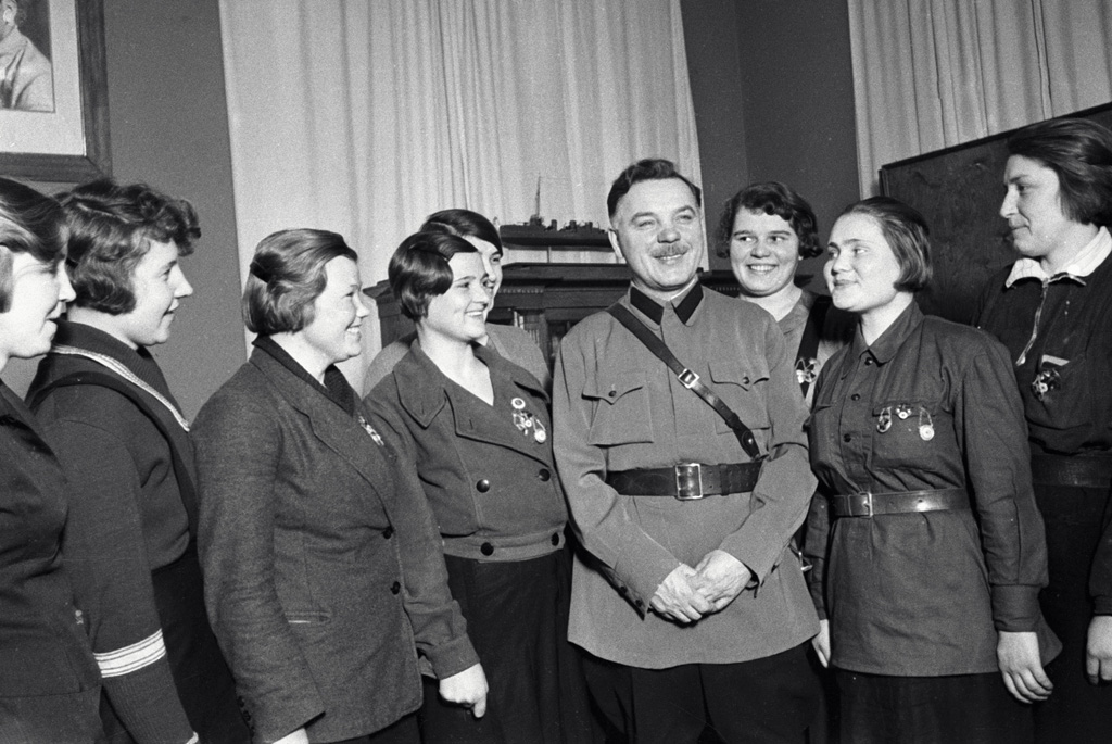 “Kliment Voroshilov at a meeting with young Communist League members”. USSR Commissar of Defense Kliment Voroshilov (fourth right) has a meeting with Young Communist League female members awarded an honorary title "Voroshilov marksman."